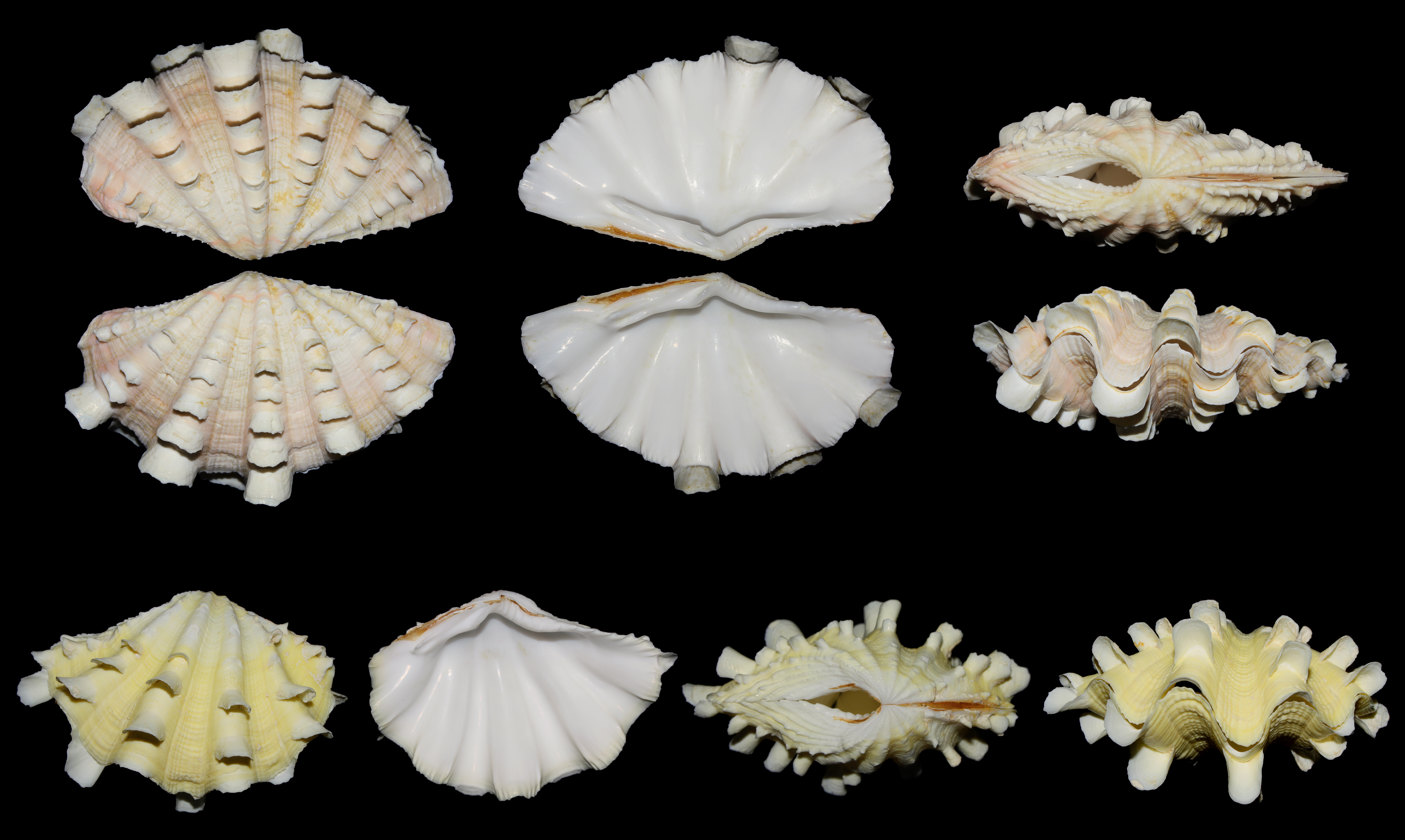 Tridacna costata Richter, Roa-Quiaoit, Jantzen, Al-Zibdah, Kochzius, 2008. Juvenile shell, 90 mm. Old shell, still grayish after cleaning. The lemon yellow shell below is Tridacna squamosa Lamarck, 1819. Juvenile shell, 70 mm without the protruding scales. Acquired around 1977. This work shows the differences between T. costata and T. squamosa: The front and backview of T. costata is in the shape of a droplet, widest at the byssal orifice. The front and backview of T. squamosa is oval shaped and nearly has left-right symmetry. T. costata has five central ridges, while T. squamosa has four. Also note that the spacing between the upright scales is smaller for T. costata.